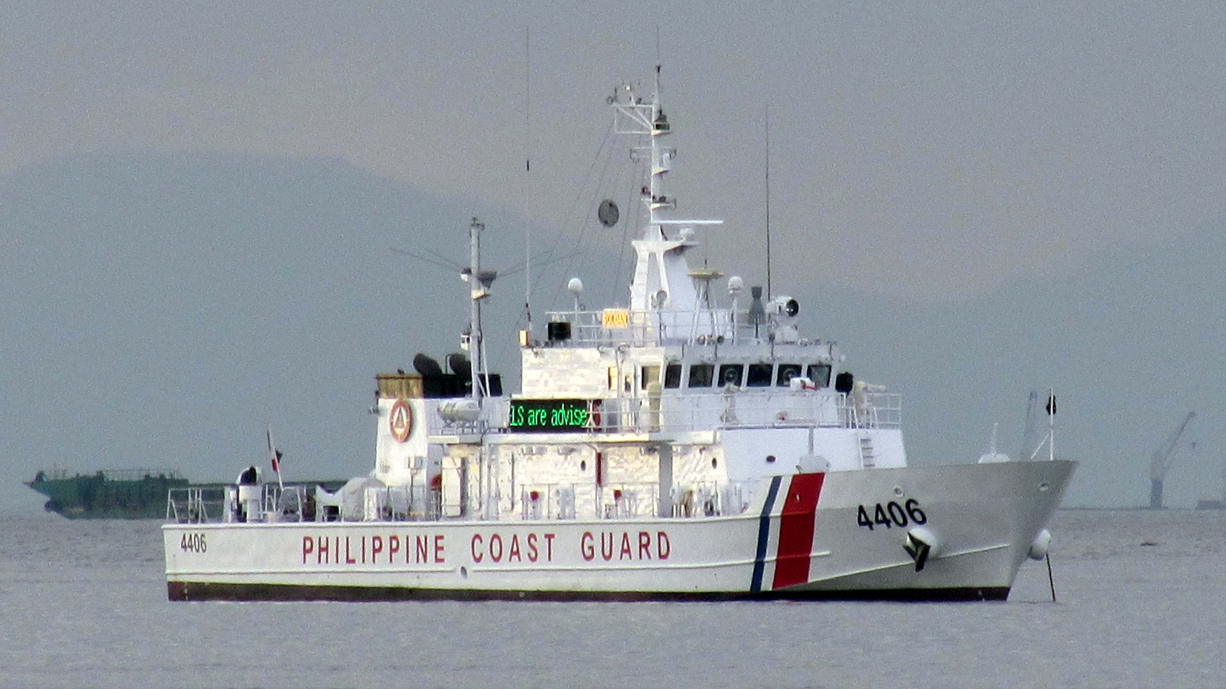 A side view of the BRP Suluan (MRRV-4406), a Parola class Multi-Role Response Vessel (MRRV) of the Philippine Coast Guard guarding the Manila Bay during the 31st Association of South East Asian Nation (ASEAN) Summit.